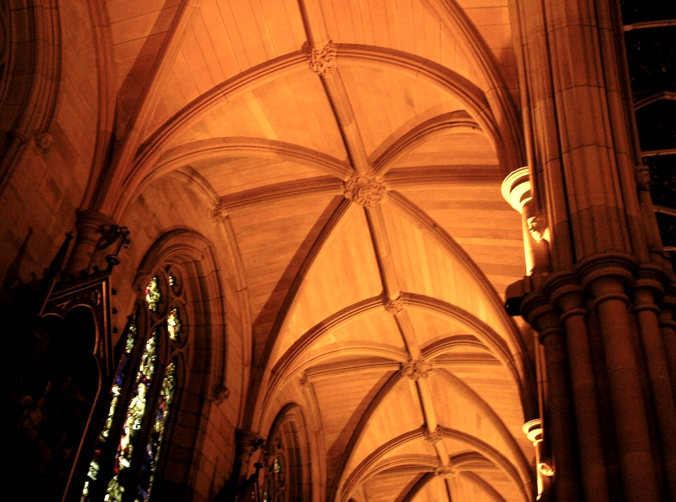 Sydney, St Marys Roman Catholic Cathedral, Aisle vault